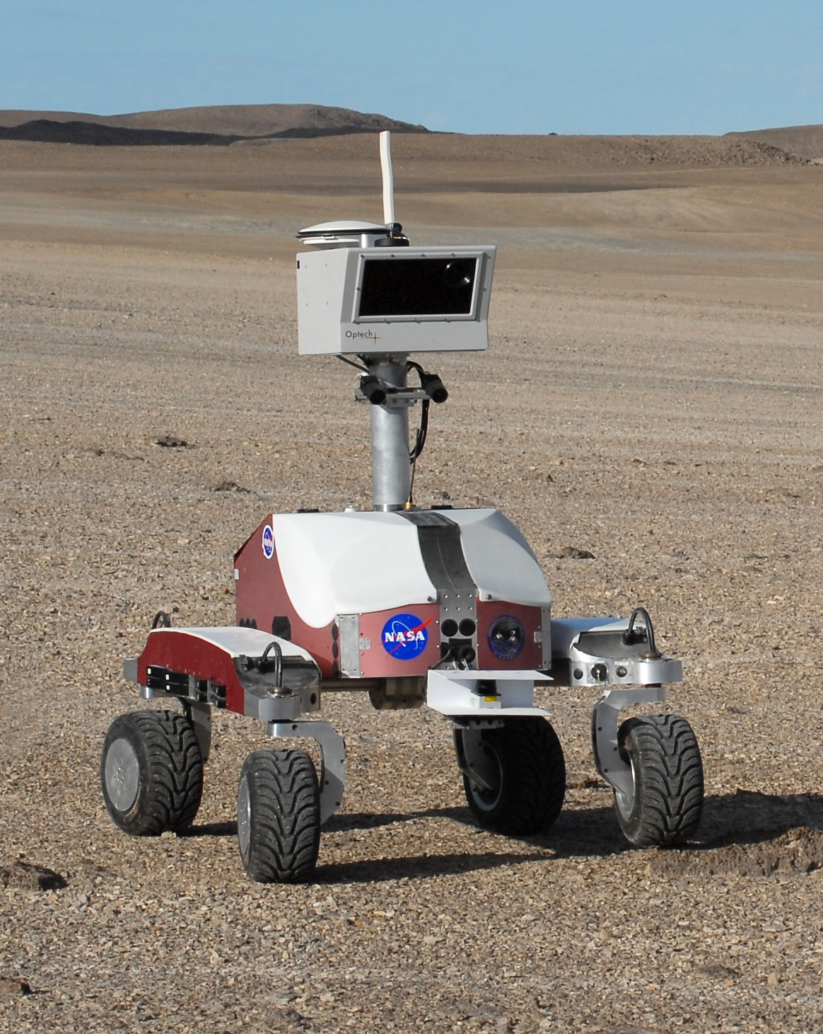 NASA's K10 robot "Red" undergoes testing at Haughton Crater, on Devon Island, northern Canada. Developed by Ames Research Center's Intelligent Robotics Group, K10's can be used for highly repetitive and long-duration tasks, such as site mapping and science reconnaissance. This unit is equipped with LIDAR, which can be used to make 3D scans of surrounding terrain.